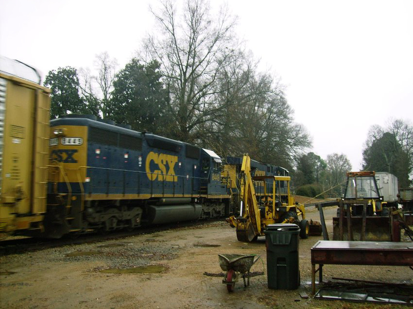 CSX SD40-2 8449, shown here in Senatobia on December 17, 2008, on former IC rails while pulling an auto train. It has the YN3 paint scheme and is sometimes called the "Dark Future".